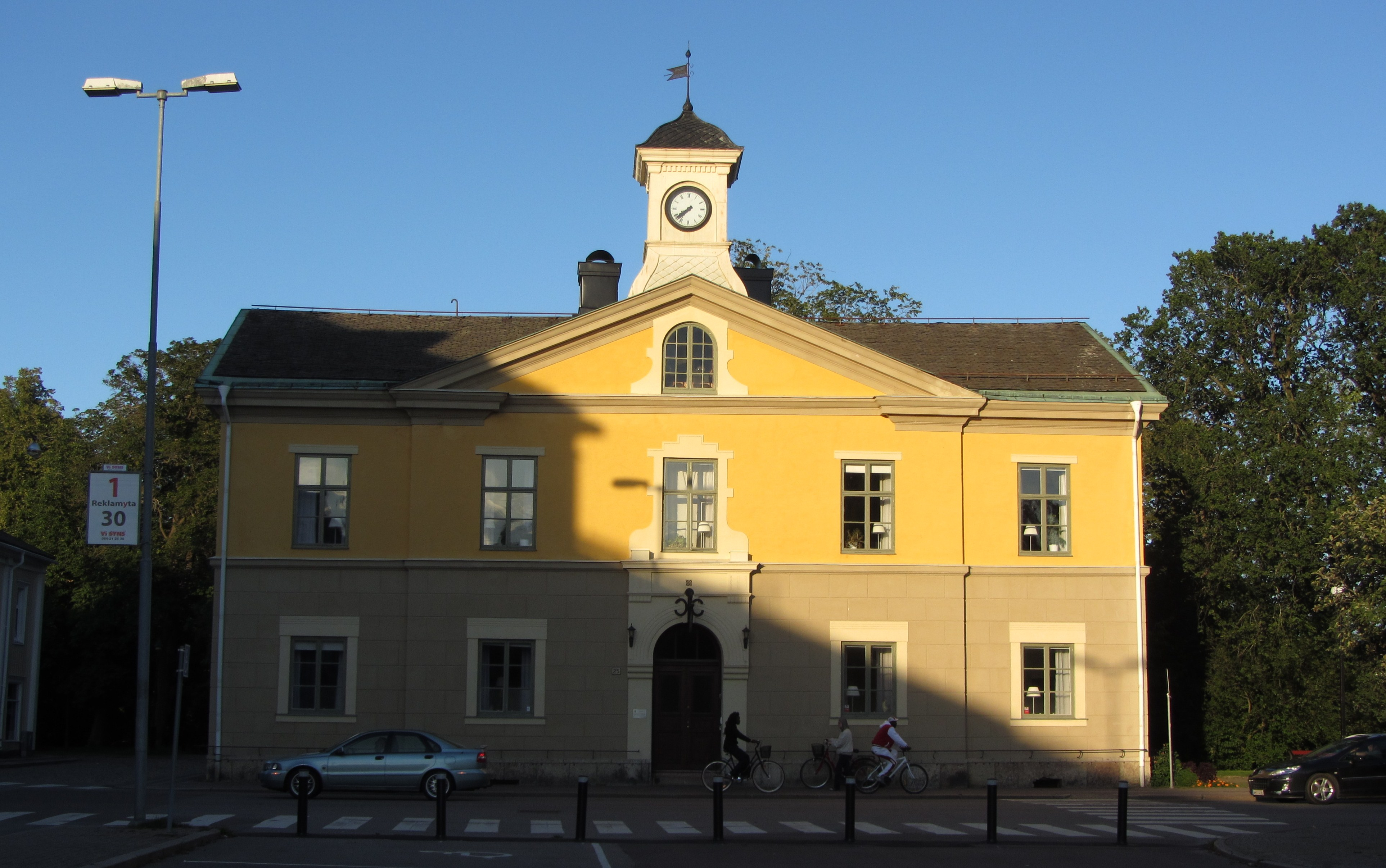 Town hall of Kristinehamn in Värmland, Sweden.